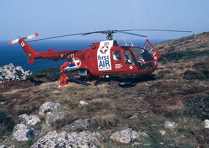 Cornwall air ambulance, cliff rescue